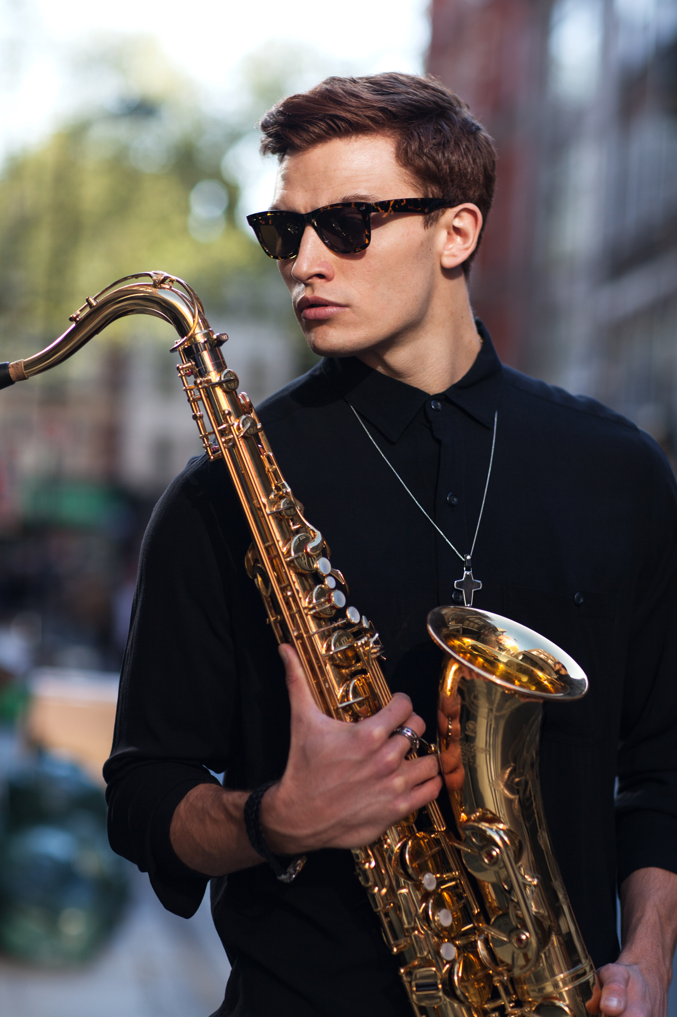 Tyler Rix shooting a feature article for Man London Magazine